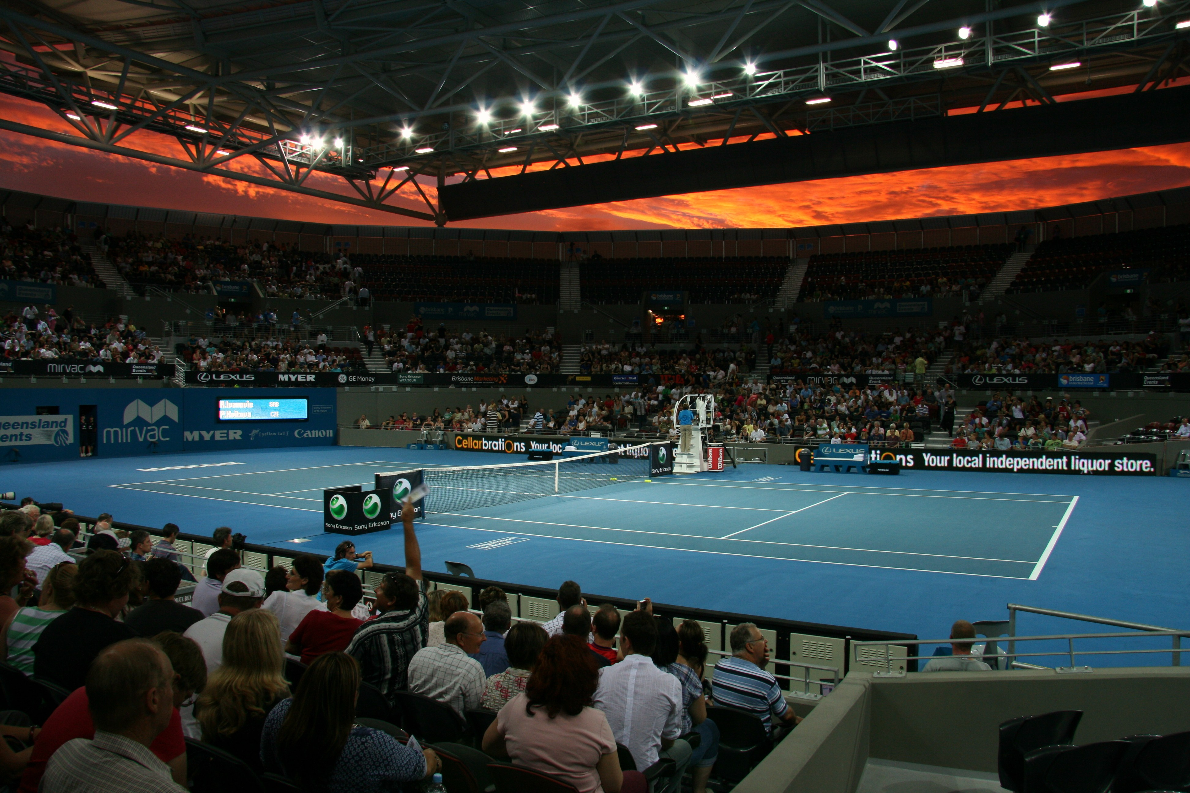 Tennyson Tennis Centre's Pat Rafter Arena at sunset during the 2009 Brisbane International